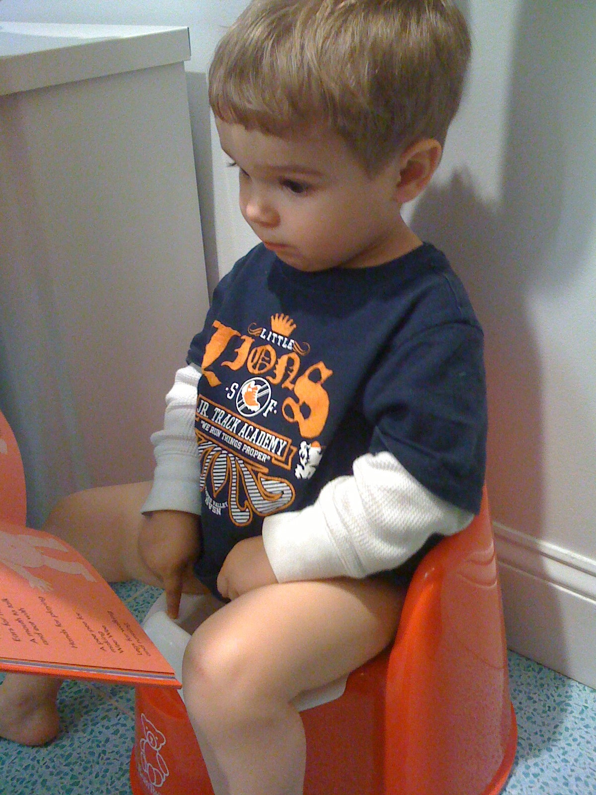 A boy urinates in his potty while someone reads a child book to him.